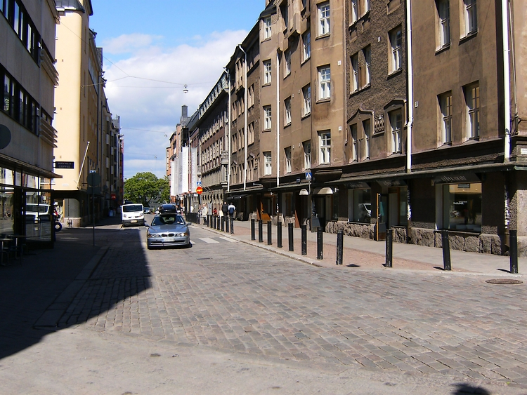 The north-western section of the street "Yrjönkatu" in downtown Helsinki, Finland